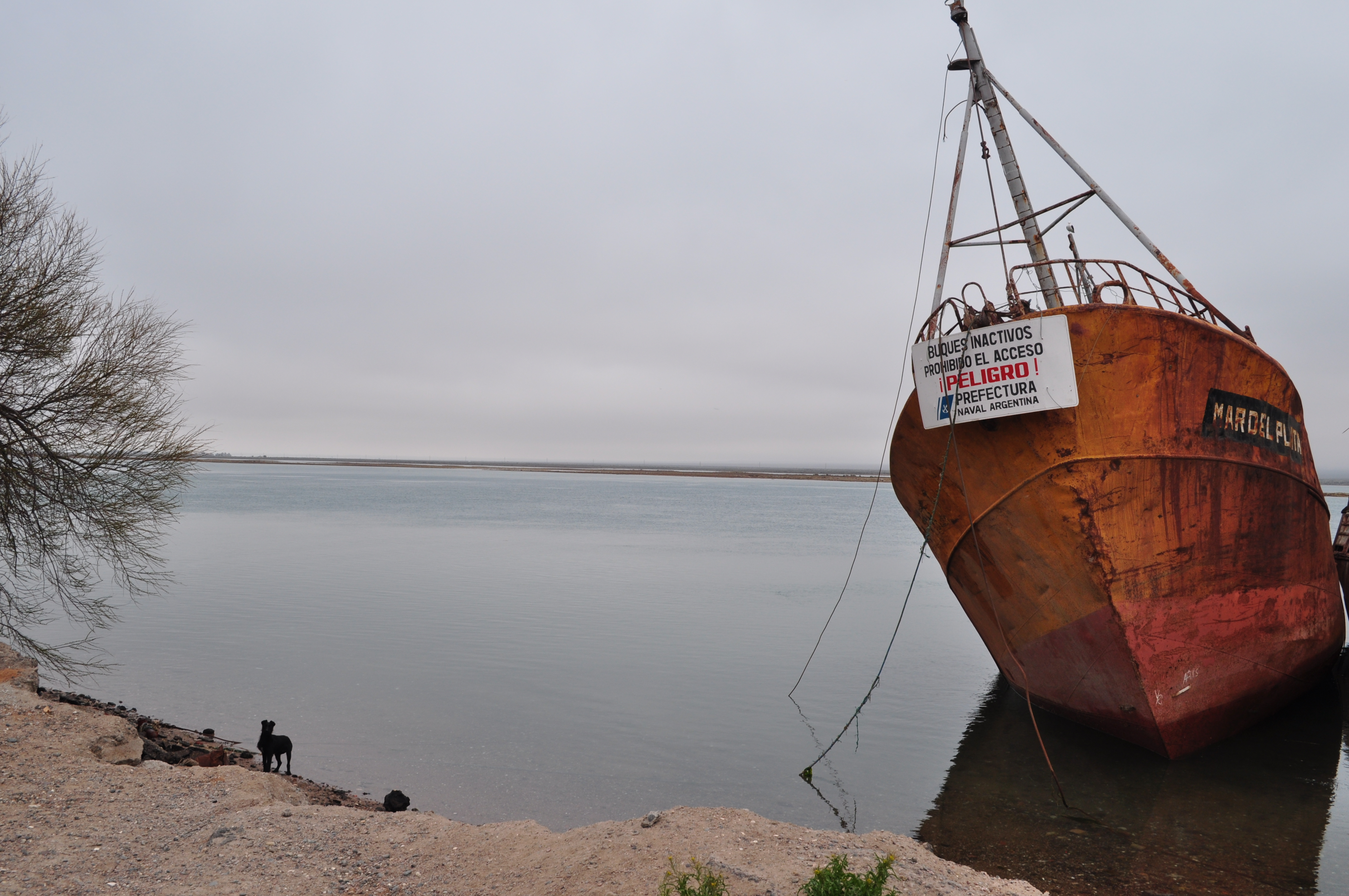 This Photo belongs to San Antonio Oeste City, South America, Argentina